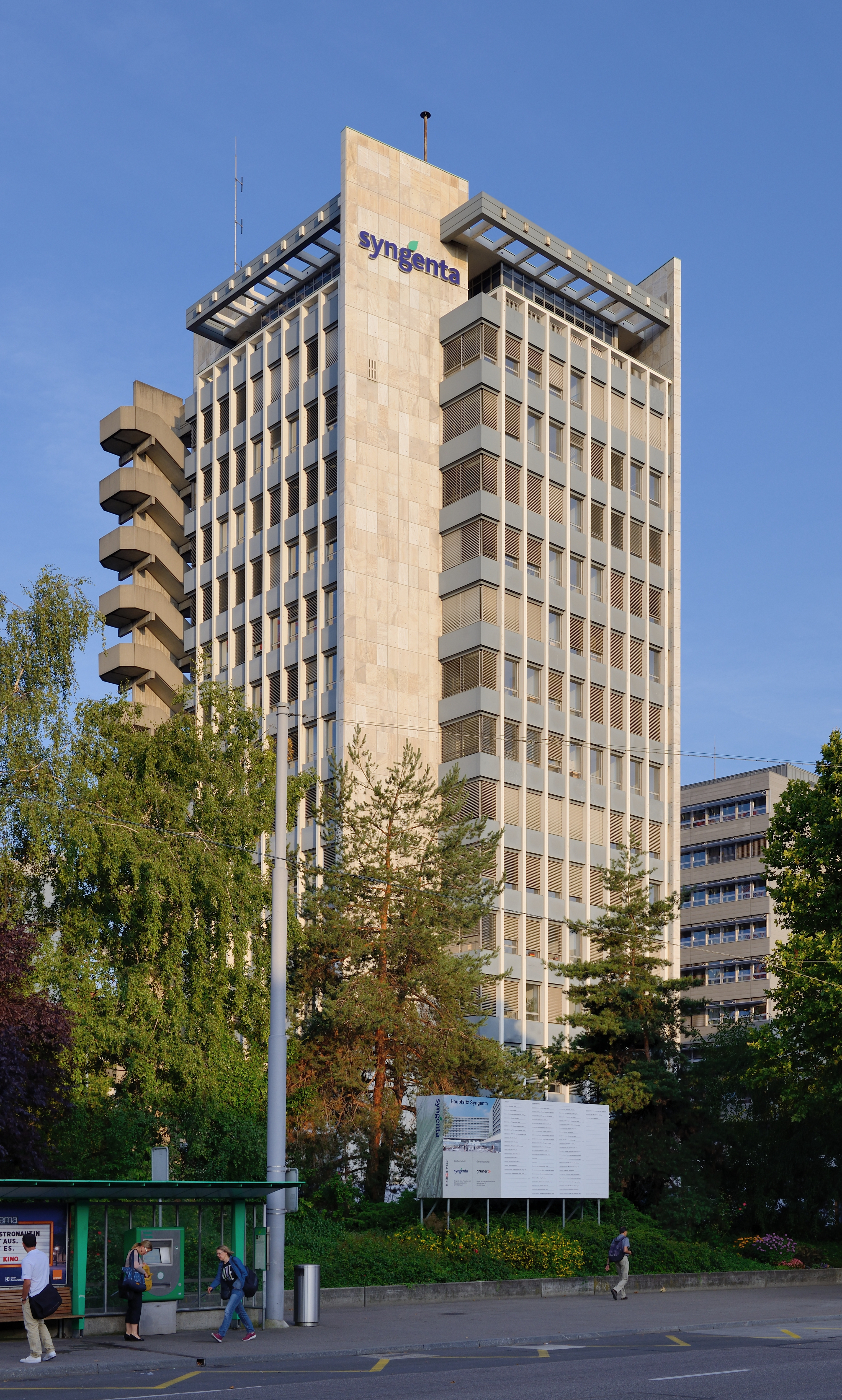 Syngenta former headquarter in Basel, Switzerland